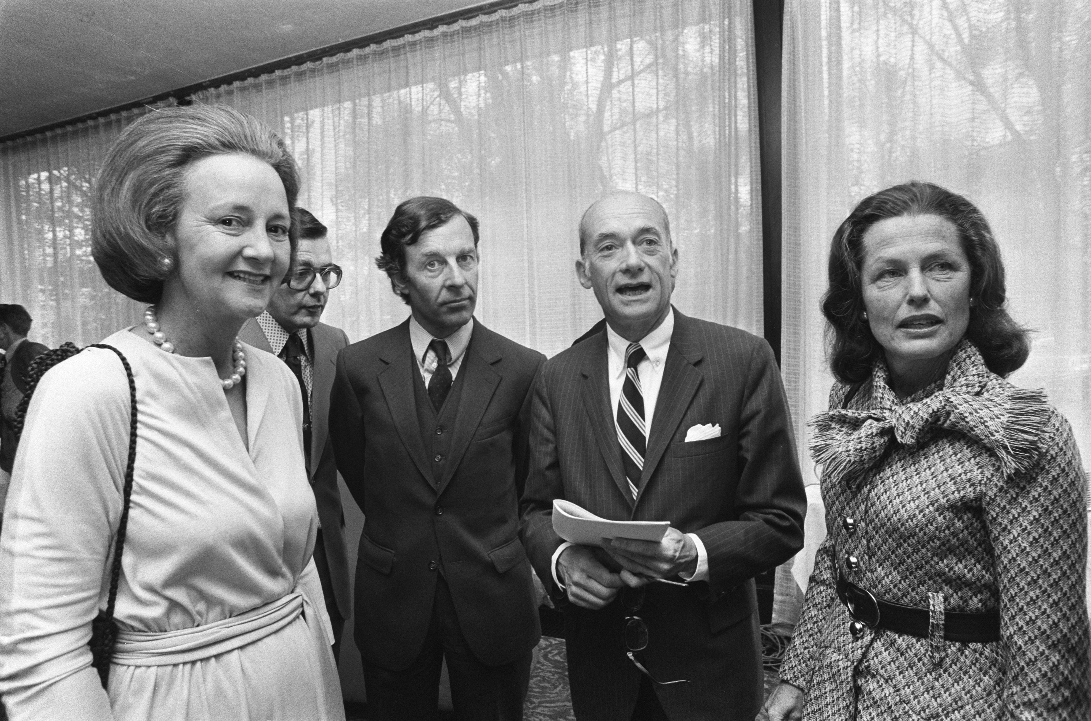 Collection / Archive: Photo collection Anefo Report / Series: Katharine Graham [1917-2001], publisher of The Washington Post, guest at a meeting of the Dutch Newspaper Press (NDP) Description: From left to right Graham, Mr. Nouwen (board member NDP), the American ambassador and his wife Date: May 22, 1975 Keywords: ambassadors, publishers Personal name: Graham, Katharine, Nouwen, J.J. Photographer: Unknown / Anefo Copyright holder: National Archives Material type: Negative (black / white) Number of archive inventory: view access 2.24.01.05 File number: 927-9431